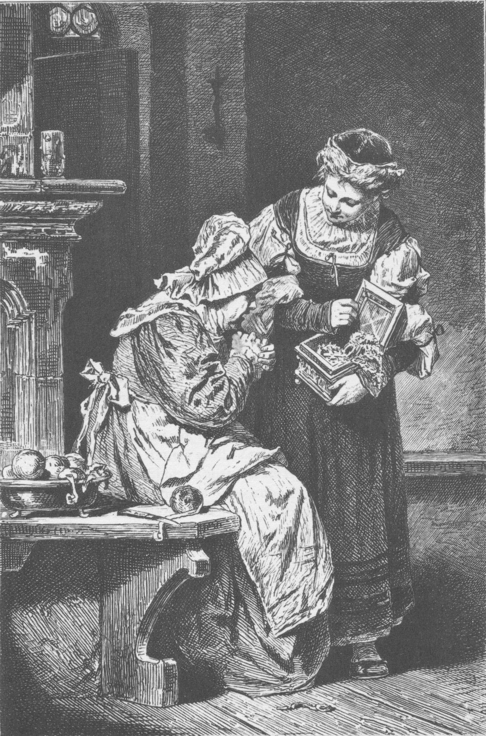 Gretchen and Marthe, engraving of a work by Alexander von Liezen-Mayer after “Faust” by Goethe